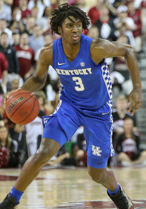 Photo by Chris Gillespie